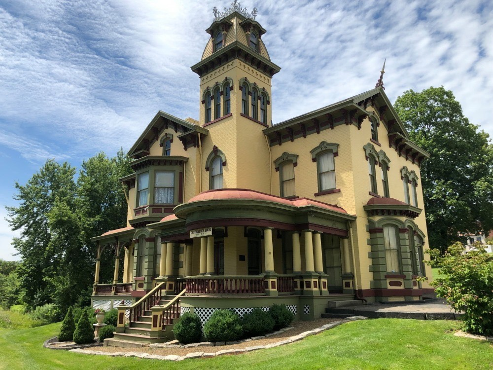 The Cassius Clark Thompson House in East Liverpool, Ohio from the front.